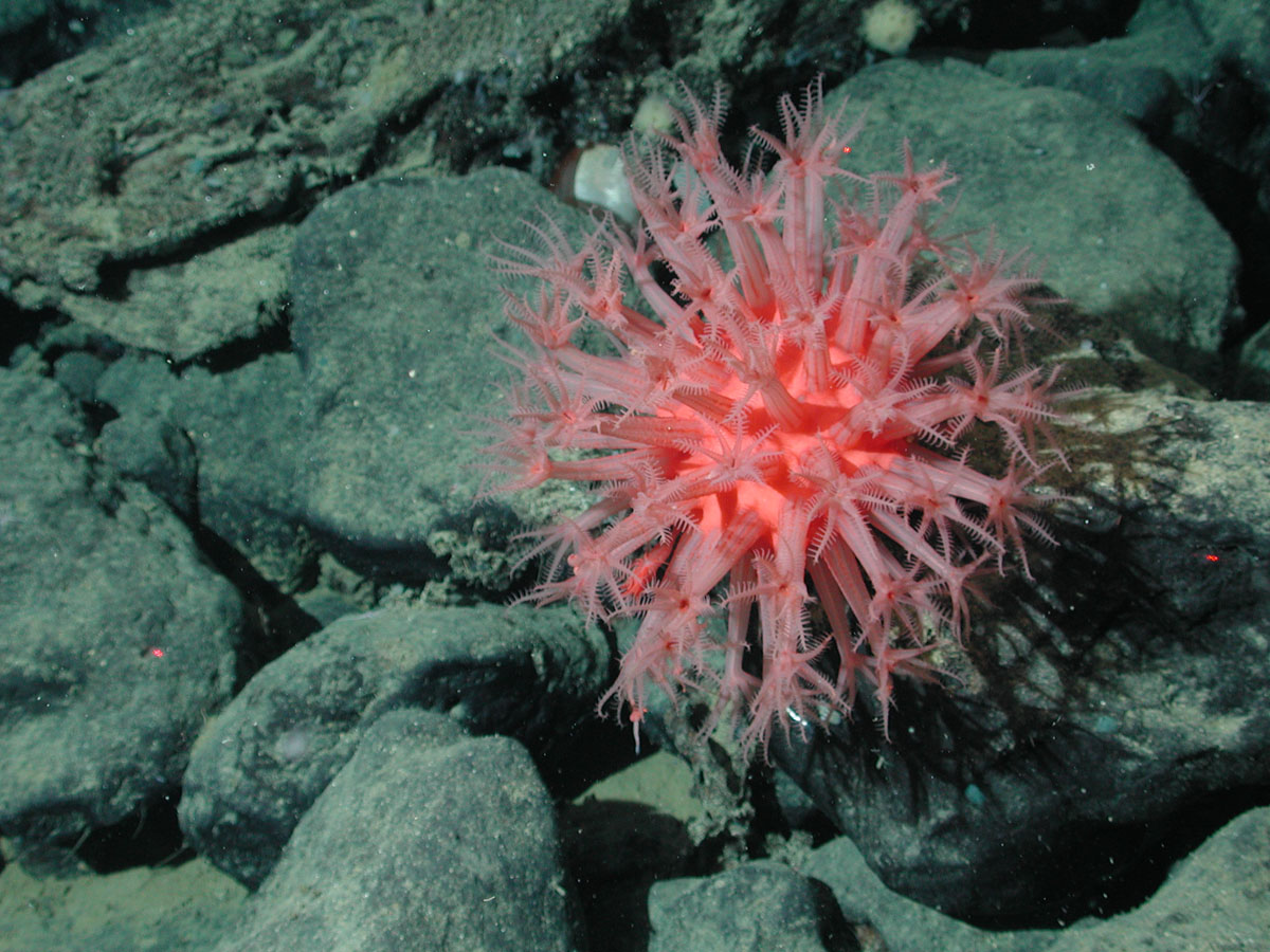 Mushroom soft coral (Anthomastus ritteri) on the Davidson Seamount at 1470 meters depth. Credit: NOAA/MBARI 2002